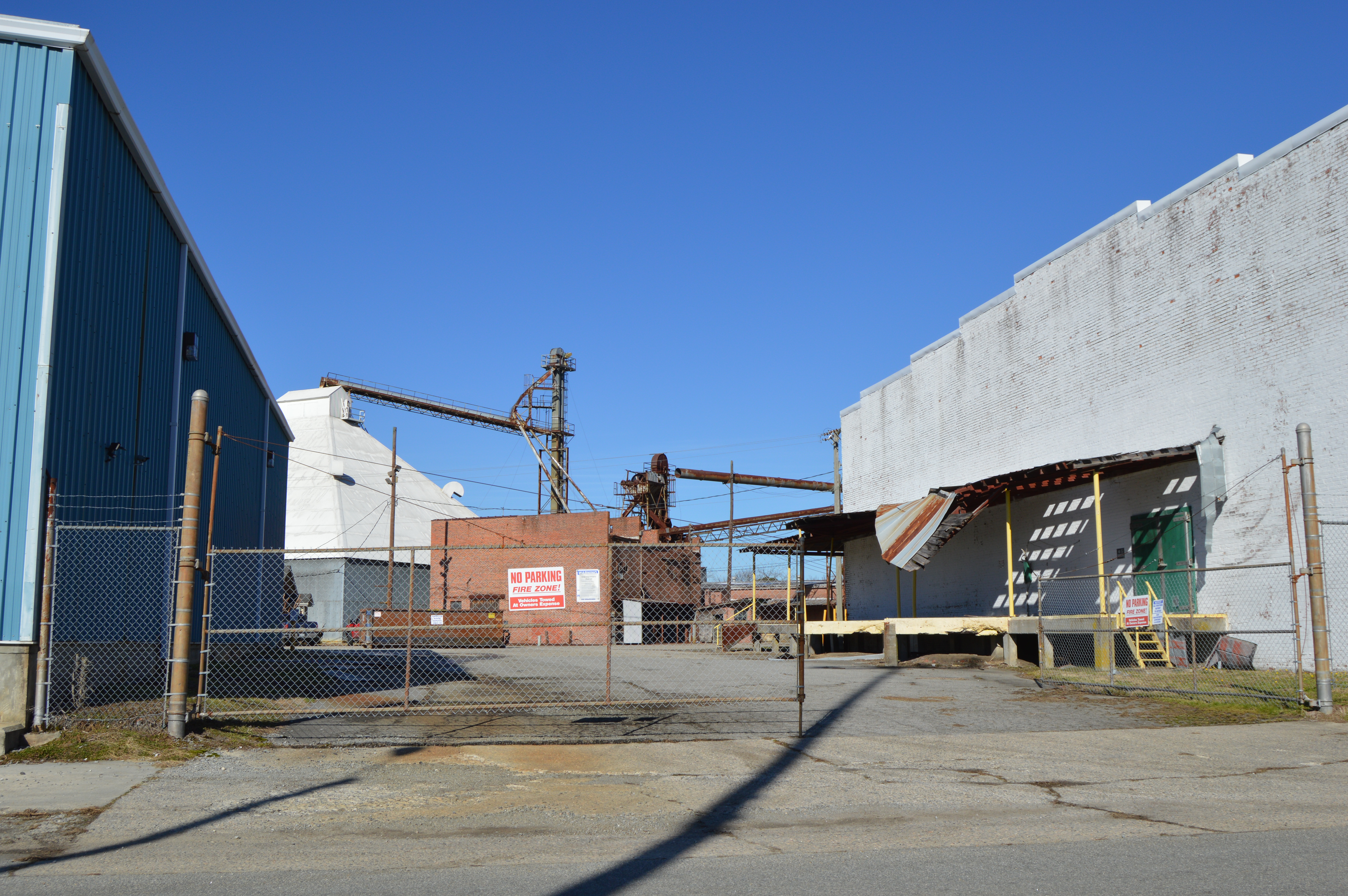 Part of the Suffolk Peanut Company complex, located at 303 Saratoga Street in Suffolk, Virginia, United States. Built in 1902, the complex is listed on the National Register of Historic Places.